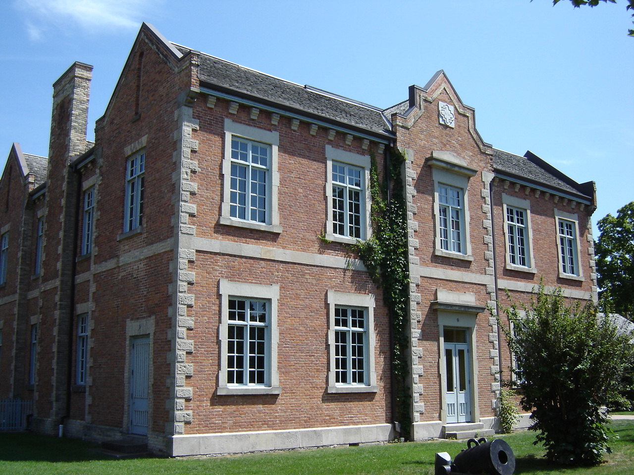 Huron County Museum, Goderich, Ontario, photo by Jay Smith